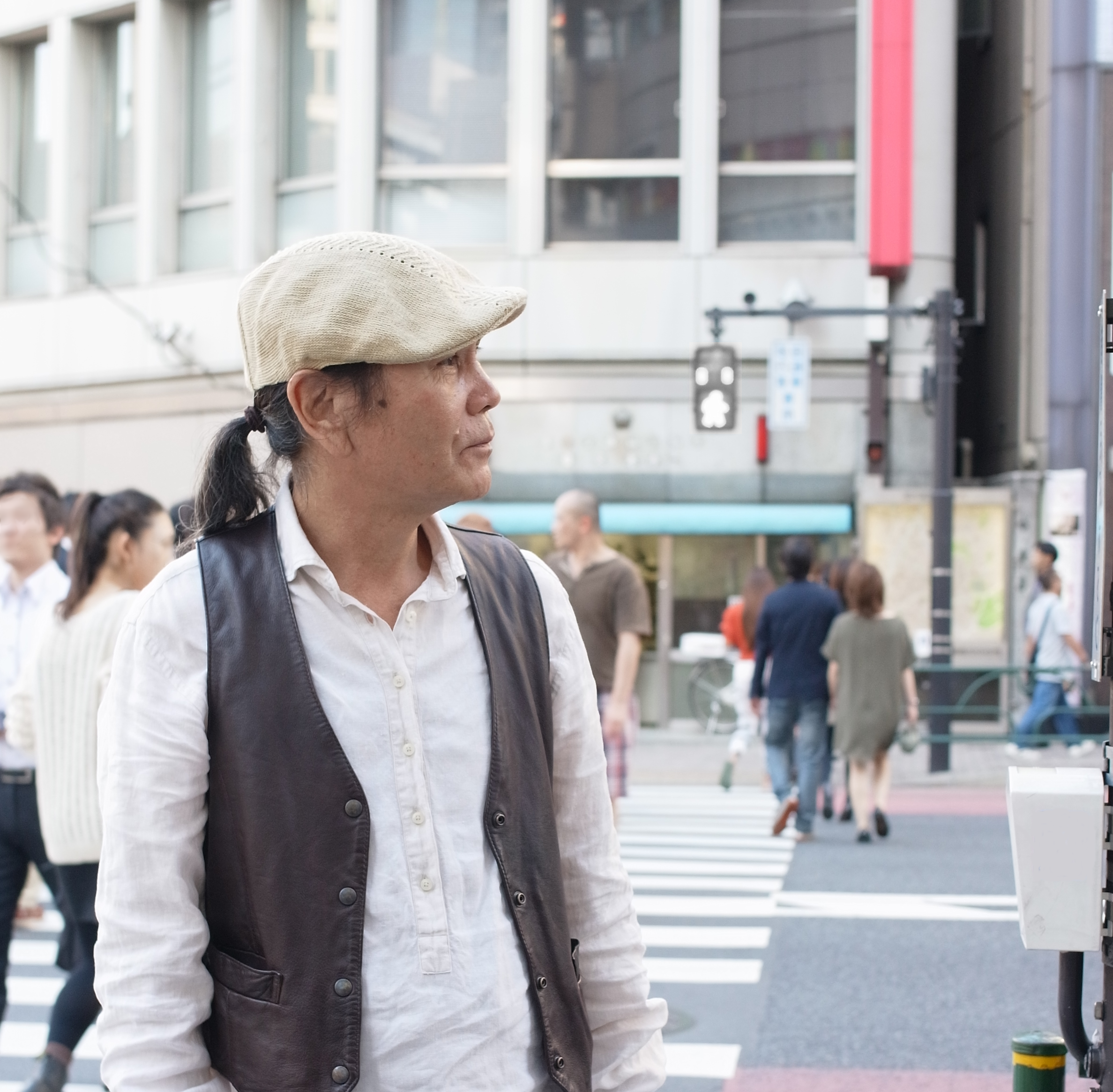 Takashi Hirayasu at Roppongi crossing.